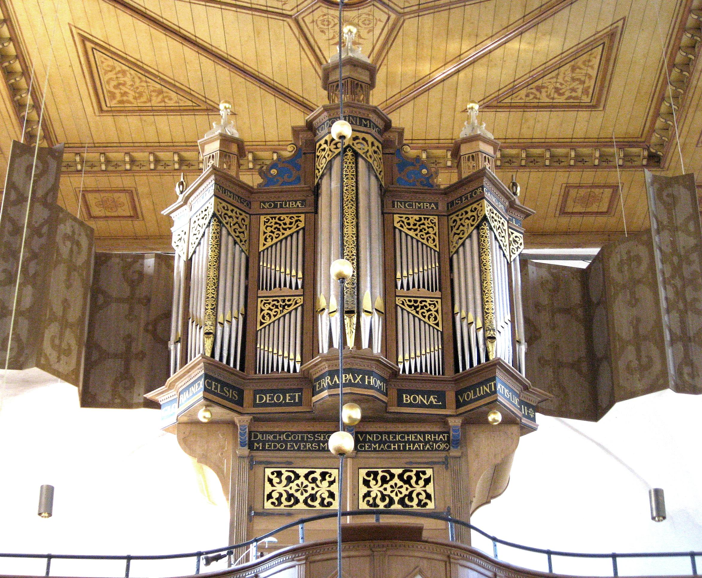 The pipe organ in the Evangelical Lutheran Church in Osteel (East Frisia), Lower Saxony, Germany.